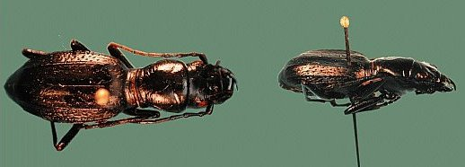 Amblycheila schwarzi. USGS photo, no copyright indicated.